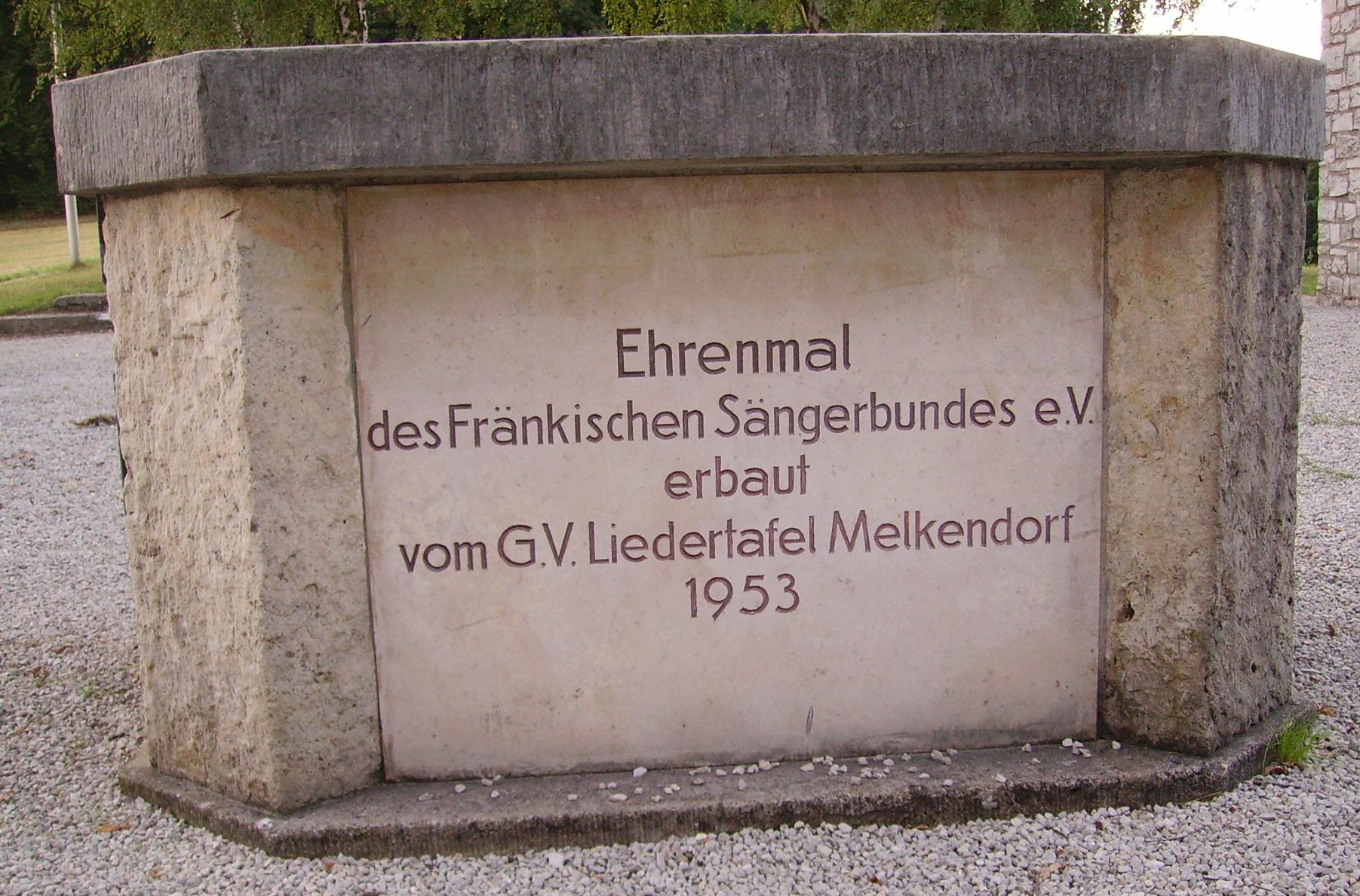 village in Germany